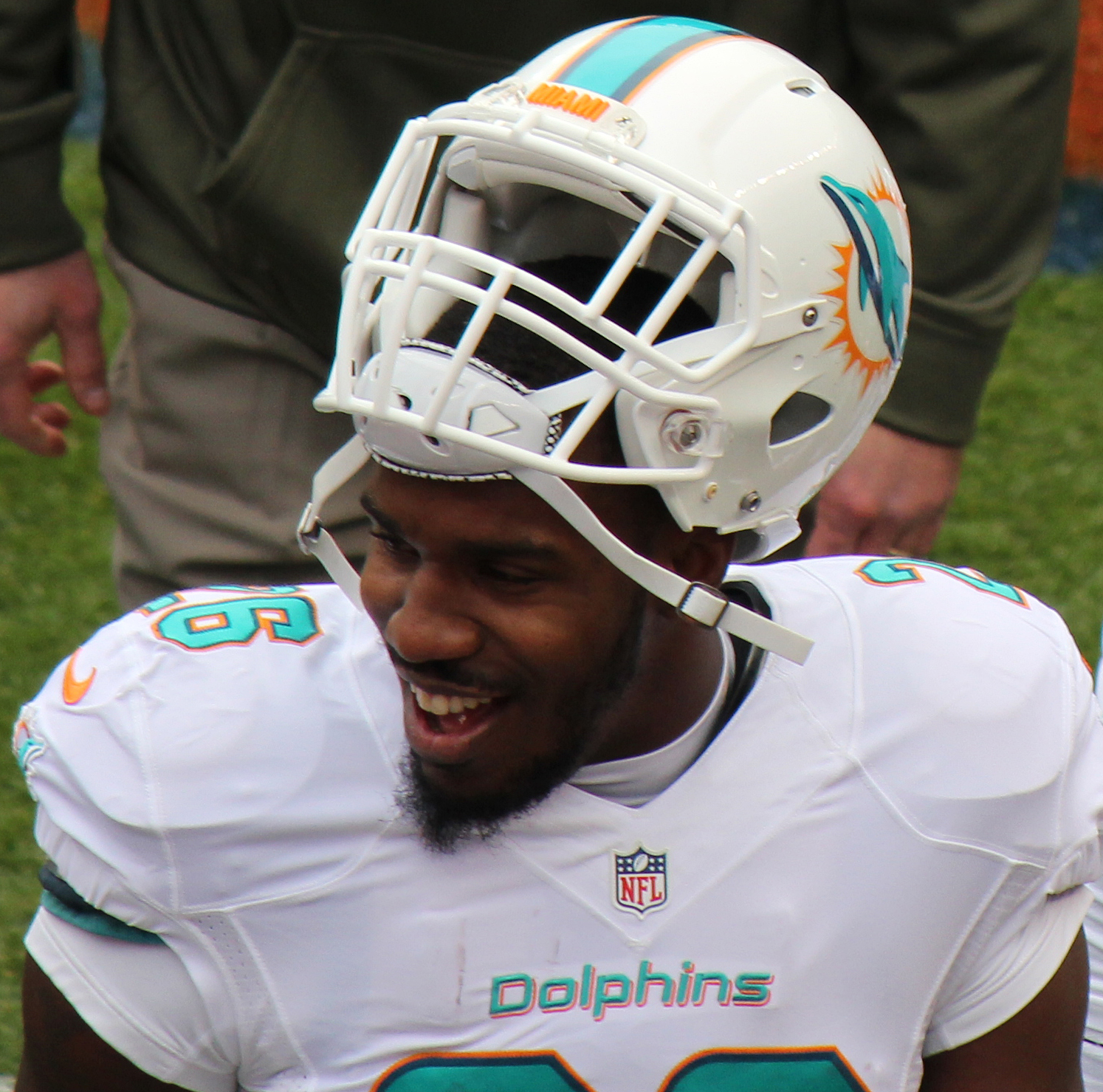 Lamar Miller, a player on the National Football League.